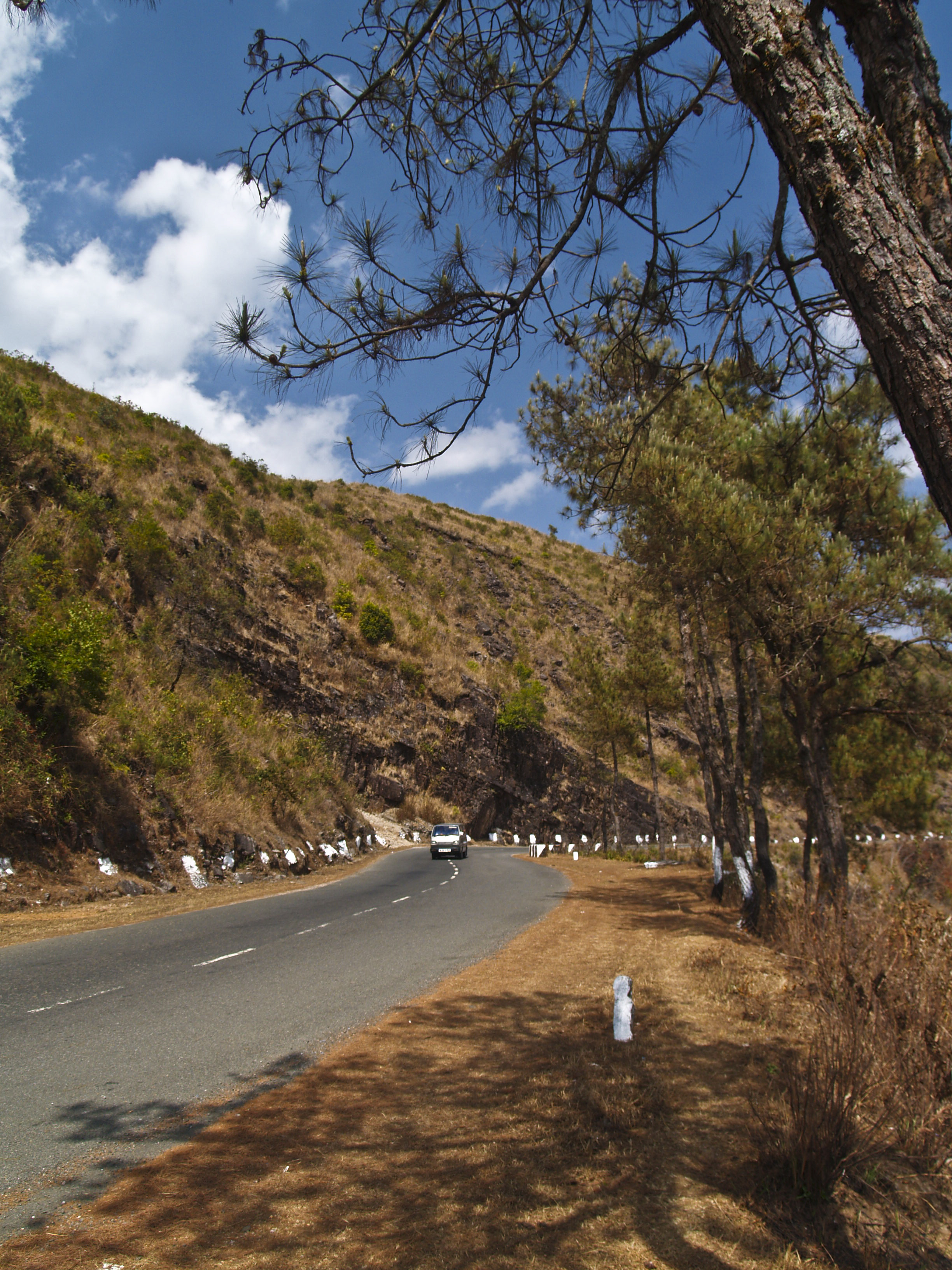 Mountain roads of Meghalaya India